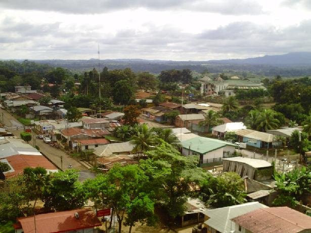 Nueva Guinea (RAAS)